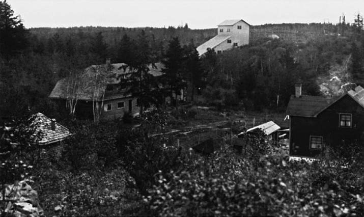 Lucky Cross Mill, Swastika, Ontario, Canada